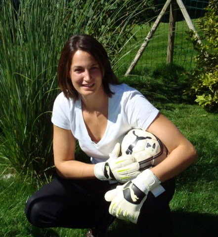 Janine Chamot in training 11. September 2010